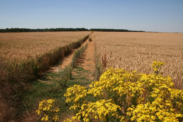 Ermine Street. The line of the Roman Ermine Street heading towards Burghley Park - part of the Hereward Way long distance footpath